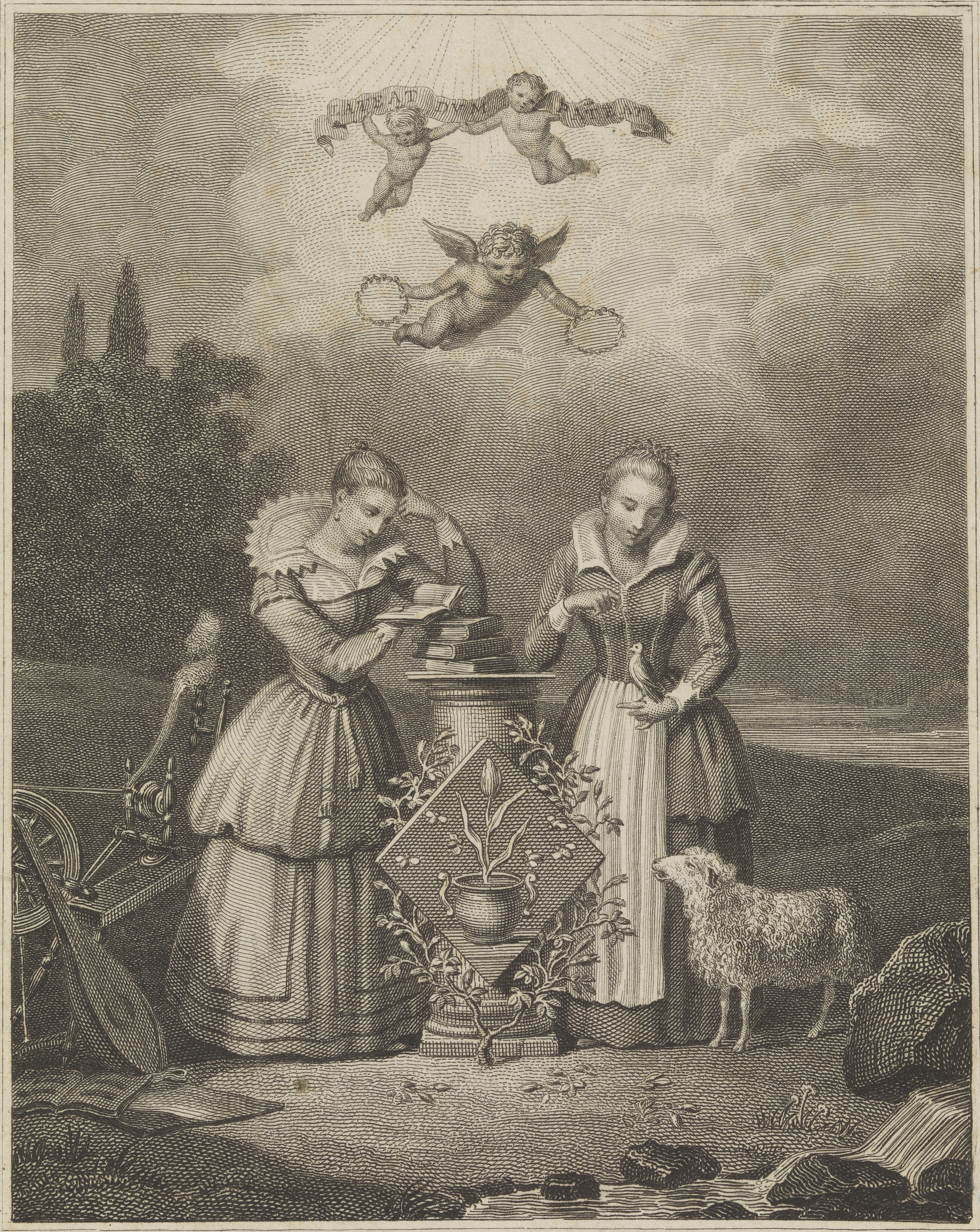 The coat of arms of virginity. Engraving by P. Velyn after J. Cats. Two virgins stand as the supporters on either side of an escutcheon. The escutcheon shows an unopened tulip in a vase surrounded by bees (representing suitors around an unmarried girl). The girl on the left exemplifies "Leersucht" (studiousness or docility): she reads a book, rests her elbow on other books, and has the attributes of various learned arts (spinning, music). The girl on the right exemplifies "Eenvoudicheyt" (simplicity): her attributes are a dove and a lamb (innocence). Above, cherubim descend holding a banner with the moto "Lateat dum pateat" (Let it remain hidden until it become open) and with laurel wreaths as rewards for virtue Lettering: Maeghde-wapen. L.A. Vintcent del. ; P. Velyn sculp. Credits: Adaptation of an engraving in Jacob Cats, Houwelyck, 1625 (Bedaux, loc. cit., pl. 8, reproduced from the Haarlem 1642 edition) References Jan Baptist Bedaux, 'A bridle for lust', in Jan Bremmer (ed.), From Sappho to De Sade: moments in the history of sexuality, London 1989, pp. 60-68 Iconographic Collections Keywords: P. Velyn; Jacob Cats; Lodewyk Antony Vintcent